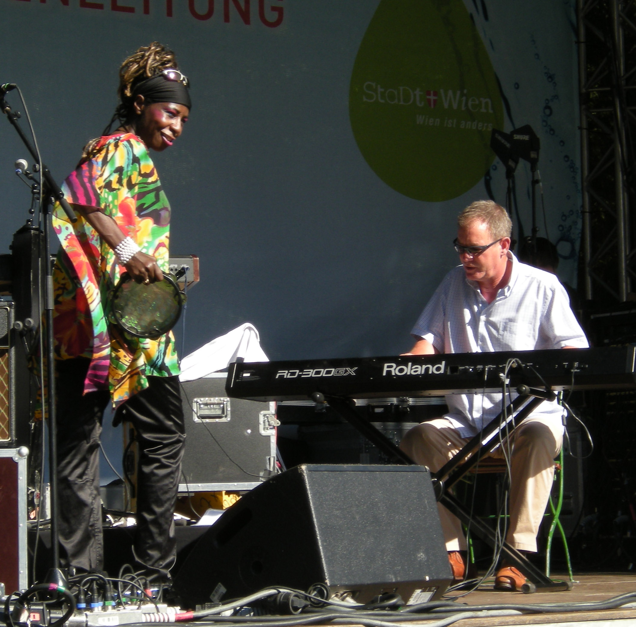 see file name, and